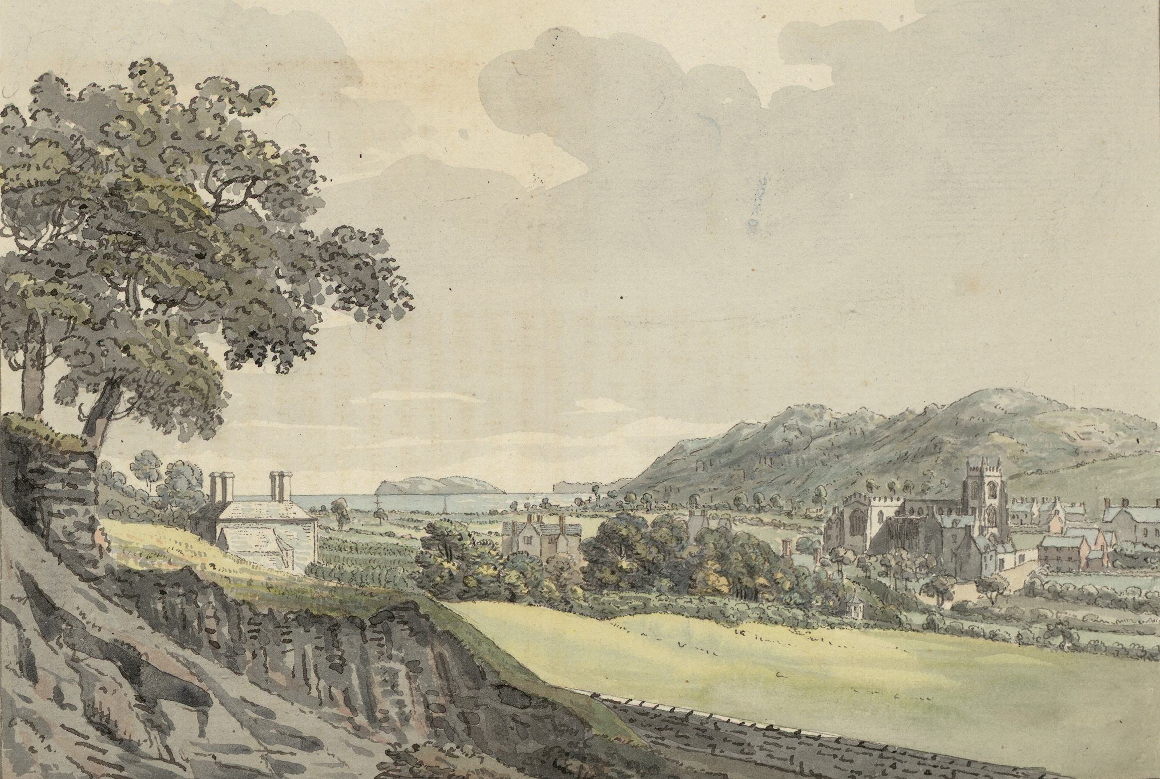 An image from a set of 8 extra-illustrated volumes of A tour in Wales by Thomas Pennant (1726-1798) that chronicle the three journeys he made through Wales between 1773 and 1776. These volumes are unique because they were compiled for Pennant's own library at Downing. This edition was produced in 1781. The volumes include a number of original drawings by Moses Griffiths, Ingleby and other well known artists of the period. Thomas Pennant (1726-1798)